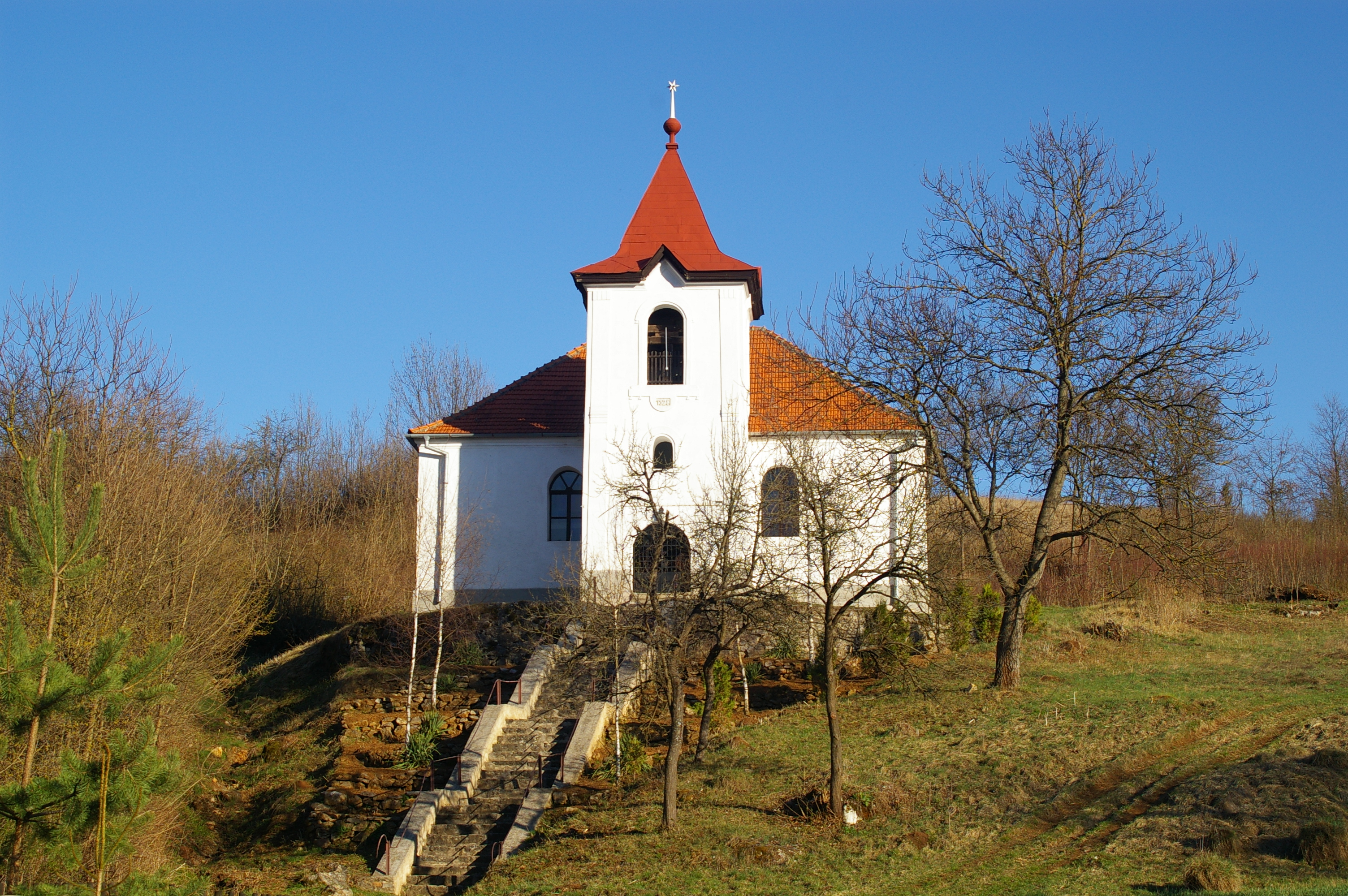 Ardovo - church